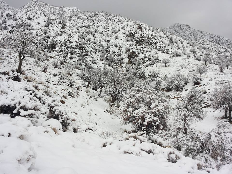 بارش برف در بلندی های پارک ملی خبر